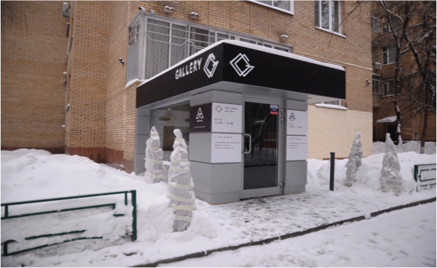 Omelchenko gallery